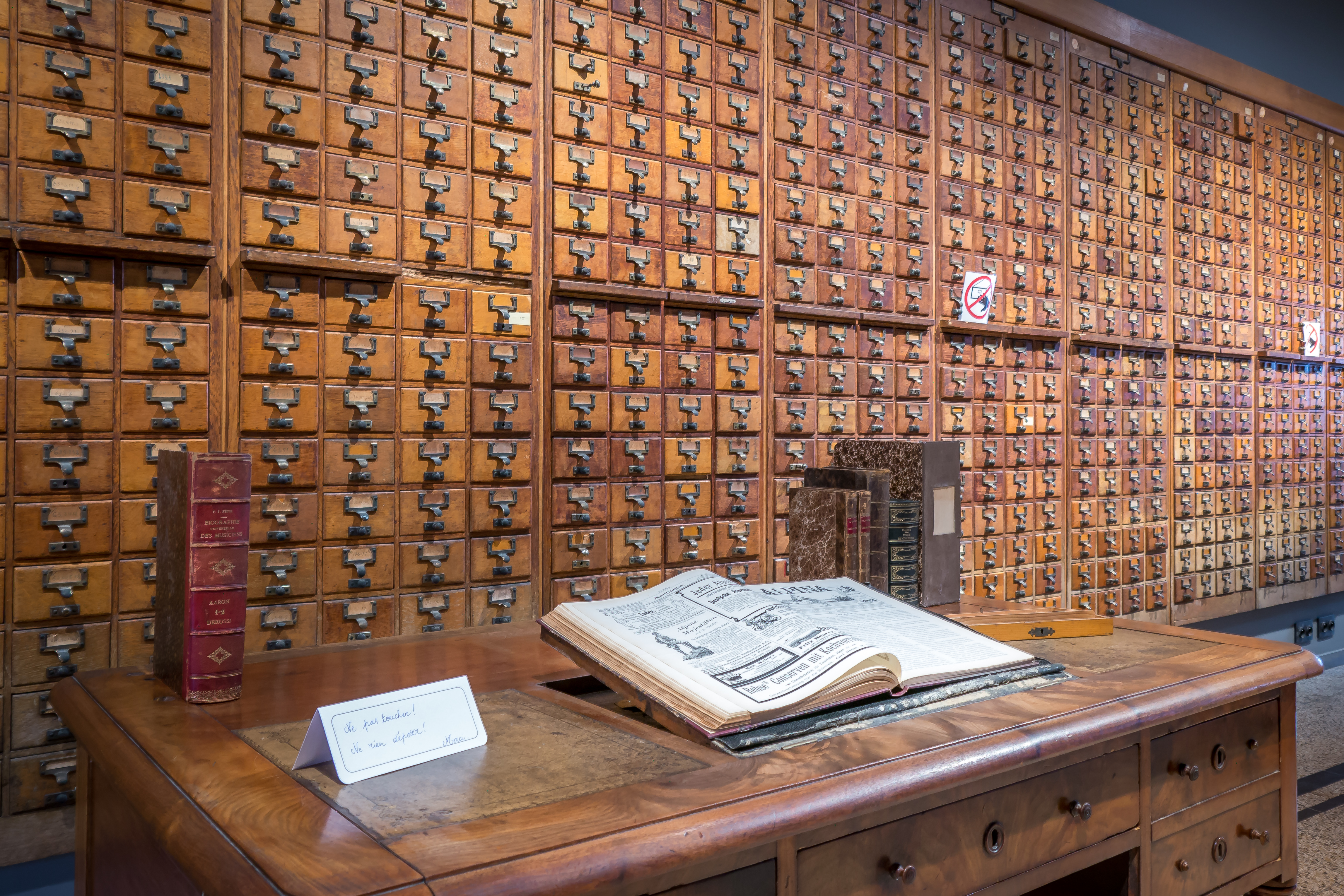 This is a file created at the museum: Mundaneum in Mons